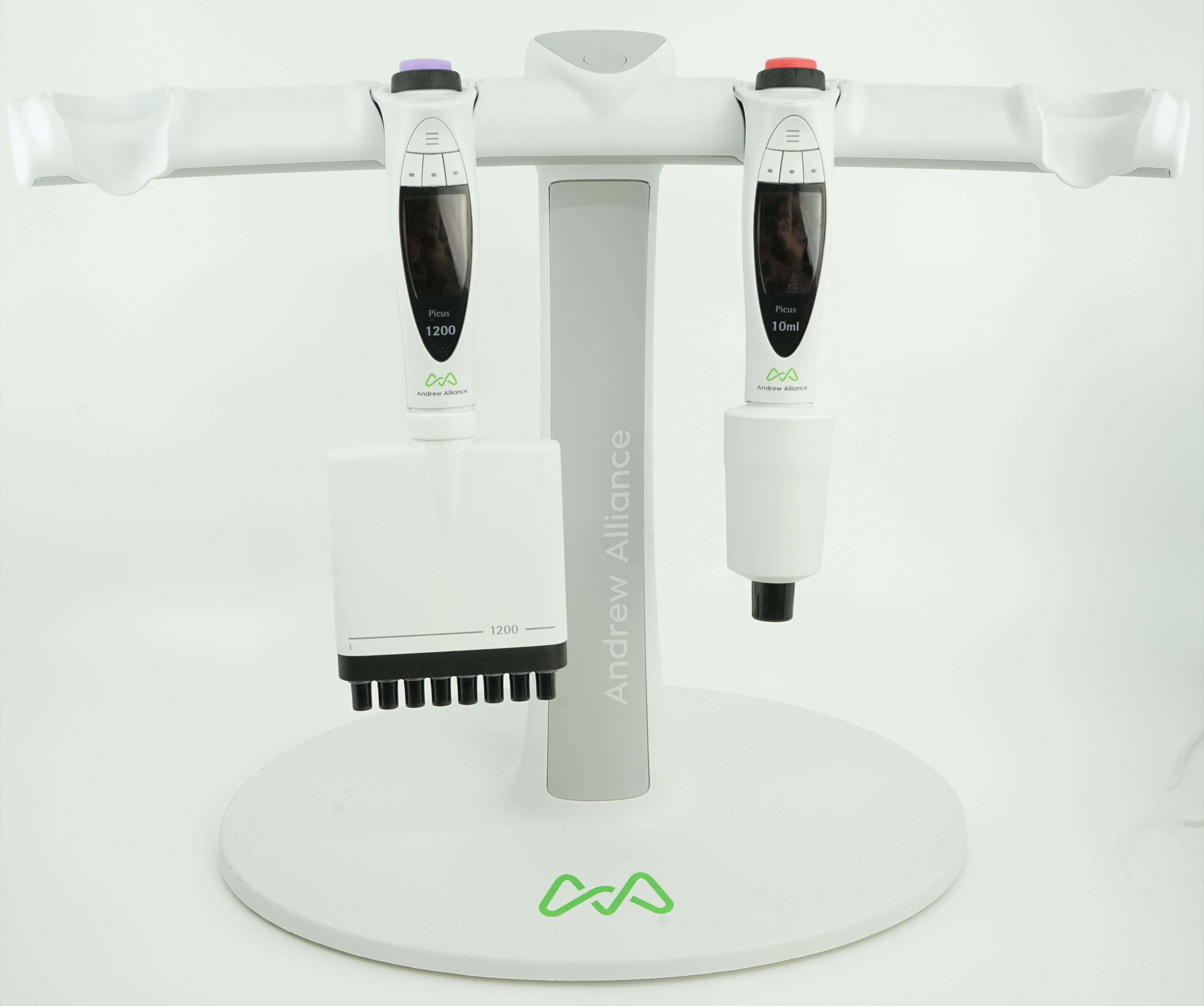 Smart pipette stand equipped with a single-channel and a 8-channel pipette